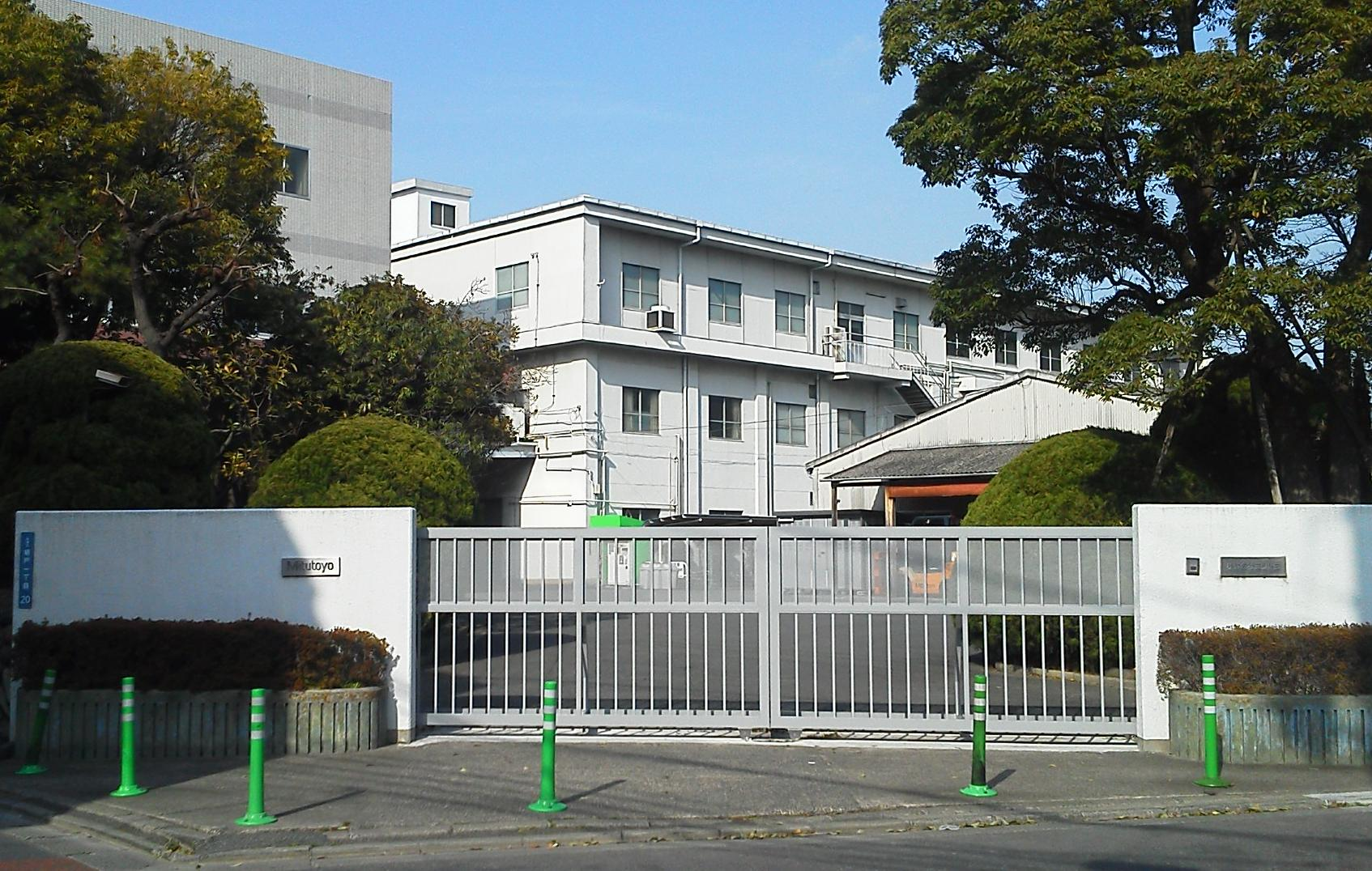 The headquarters and Mizonokuchi factory of Mitutuyo.